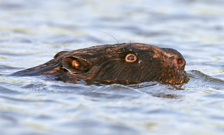 Eurasian beaver (Castor fiber vistulanus) - next to the beaver dam, Tczew area, (northern) Poland